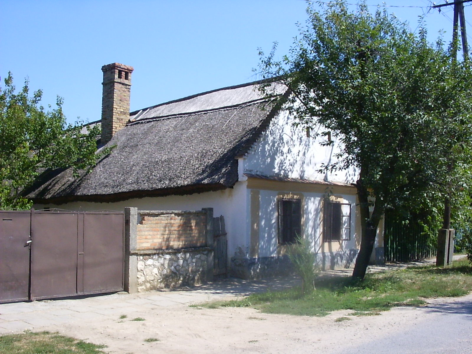 Old peasant house in Szerecseny